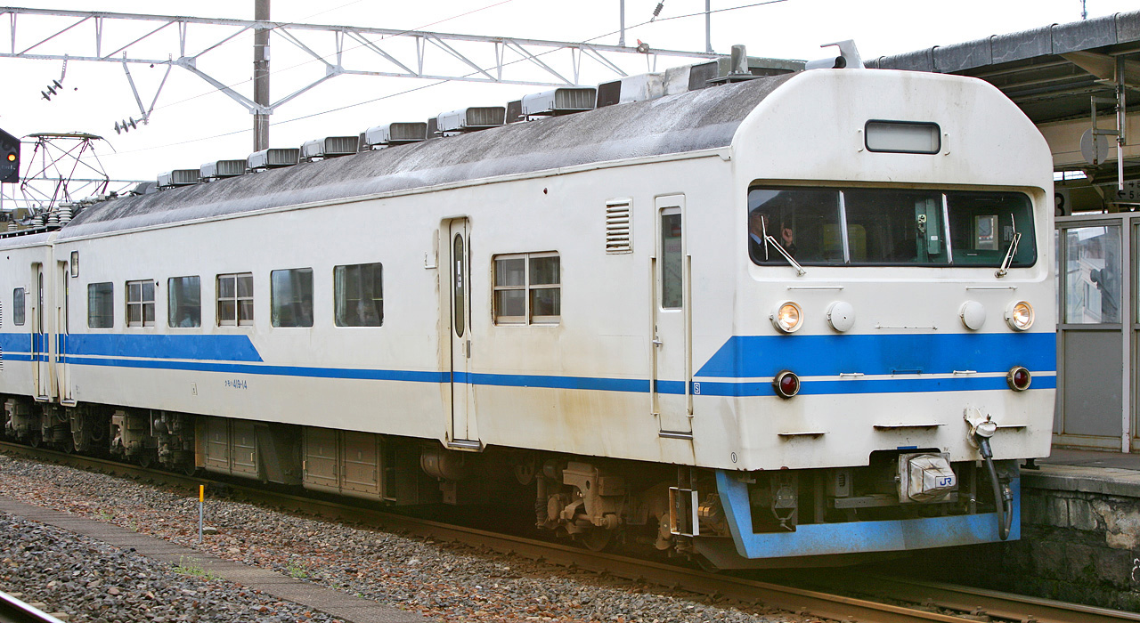 JR West's 419 series EMU at Tsuruga Station ( Kumoha 419-14 of D14F ).